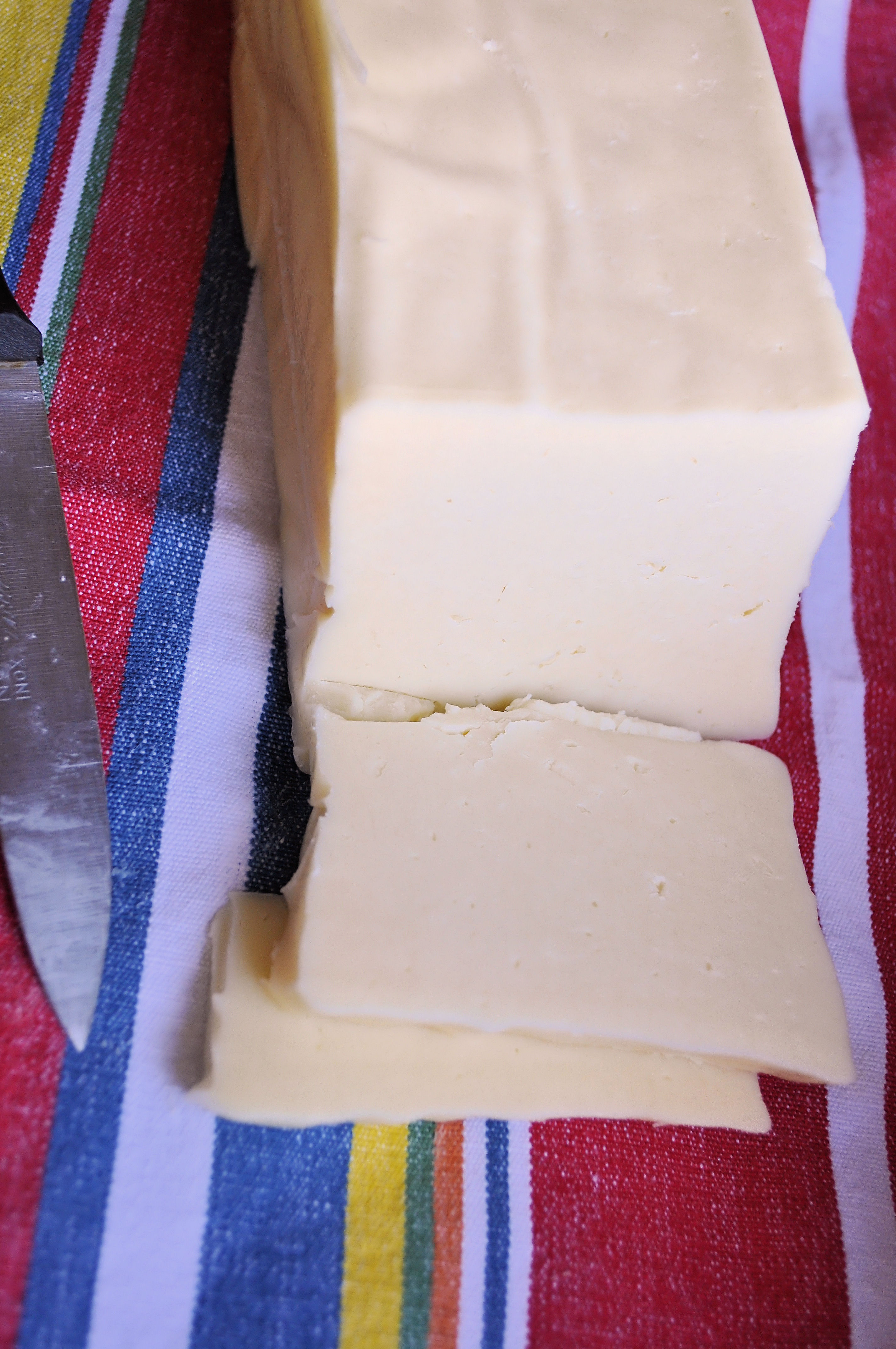 Tome fraîche is a french cow's-milk cheese, a "very young" cantal cheese